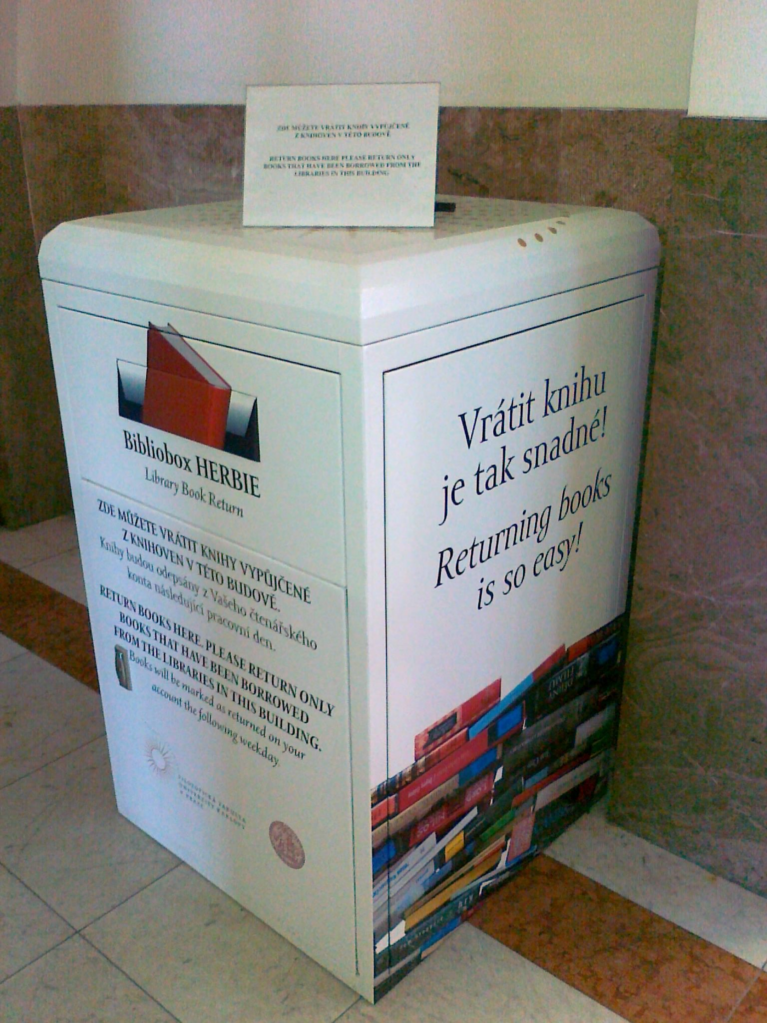 Library Book Return in Centre for Study and Information Services (CeSIS), Main building of the Faculty of Arts of Charles University in Prague, Czech Republic